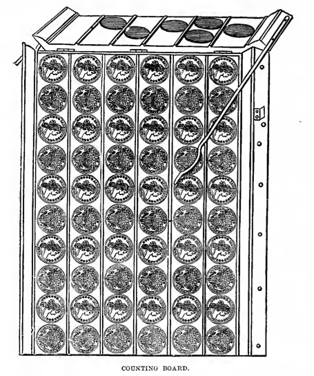 Depiction of a Bureau of the Mint counting board